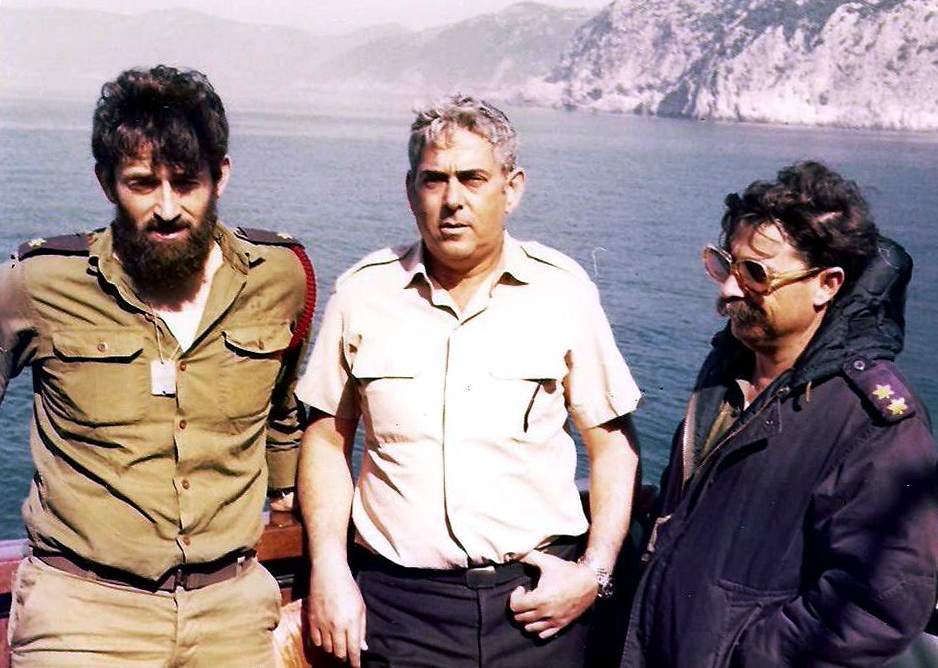 Israel Defense Forces